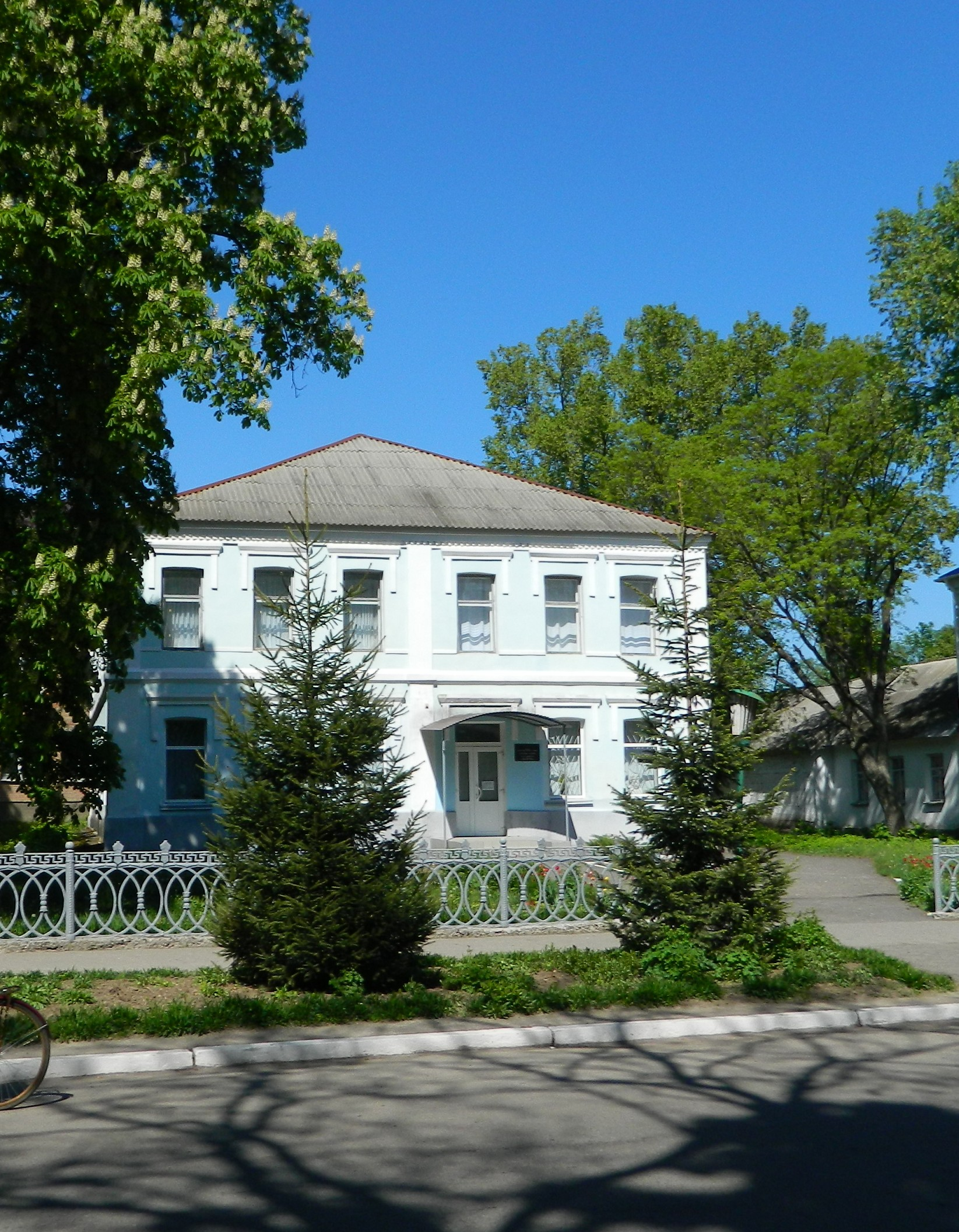 Ukraine. Dykanka. Art gallery the name of Mariya Bashkyrtseva